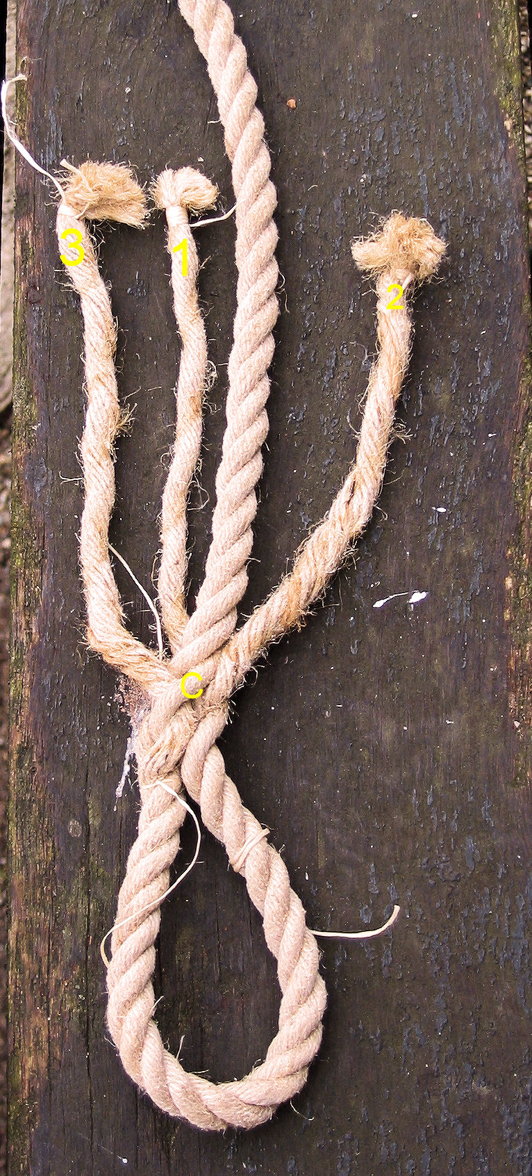 Eye splice third step